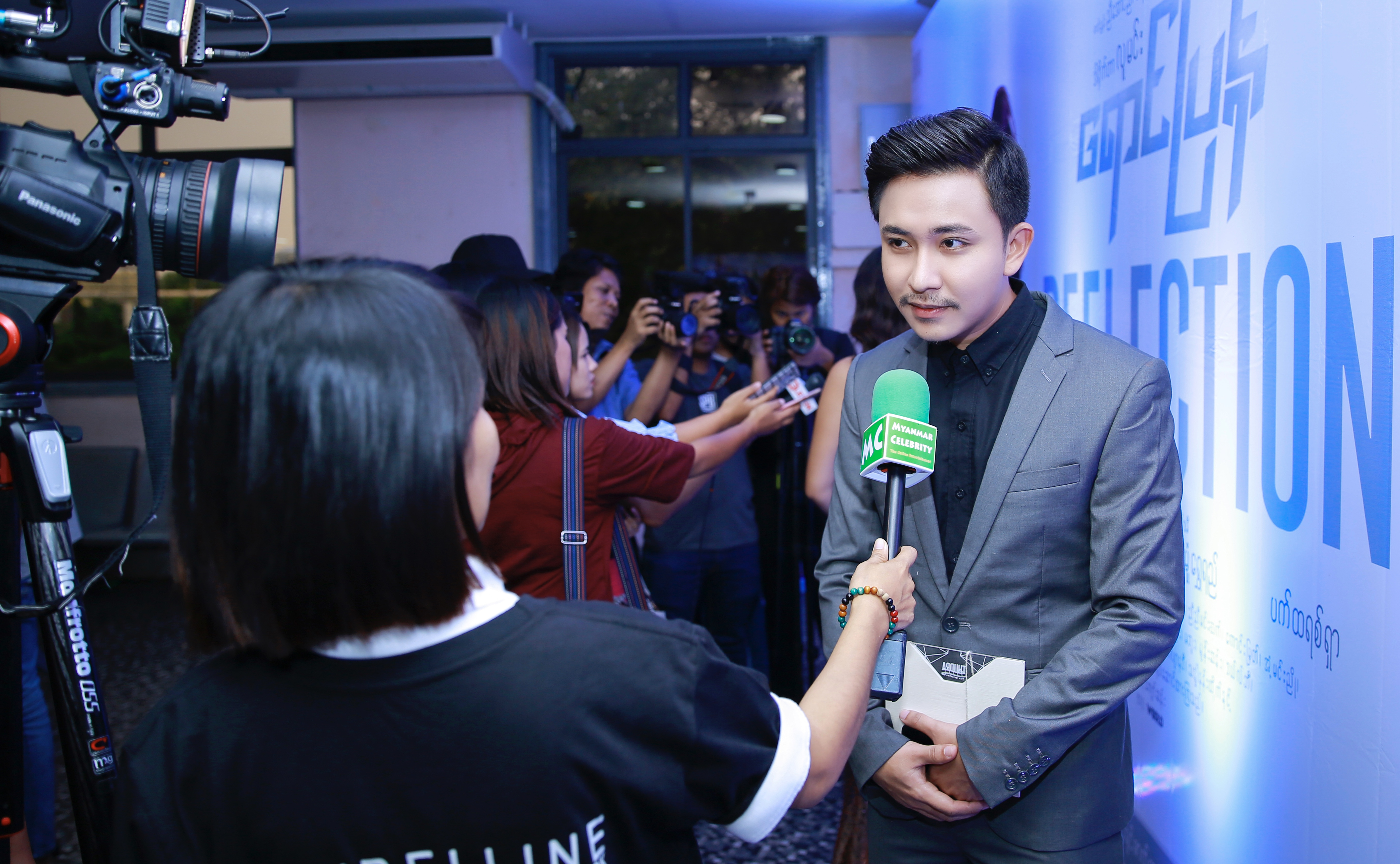 Thu Riya is at media interview